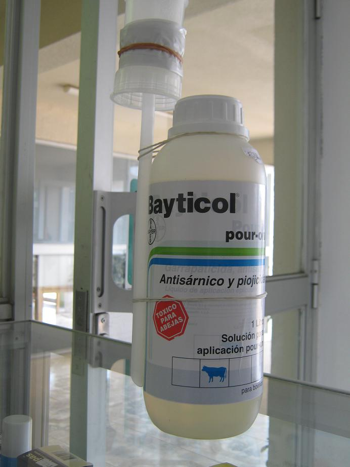 flumetrin Bayer produce, Chilean market 1 L